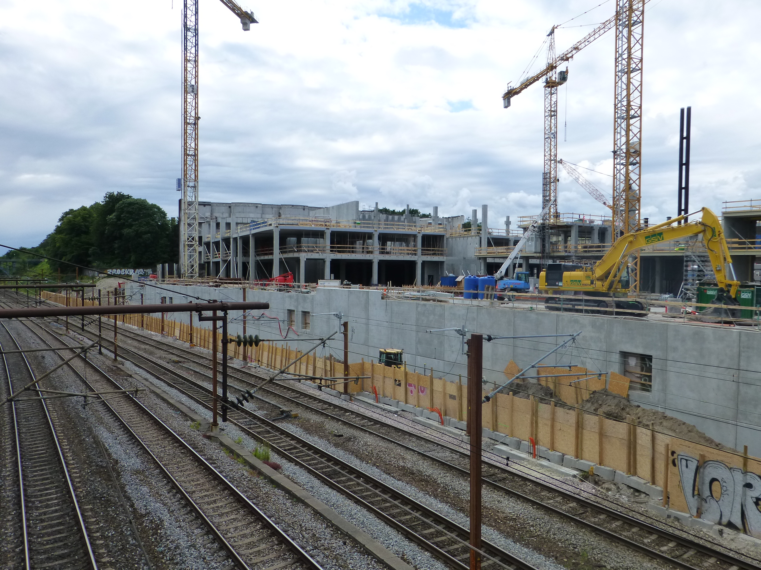 Around here the new Carlsberg Station for the Copenhagen S-trains will be build.